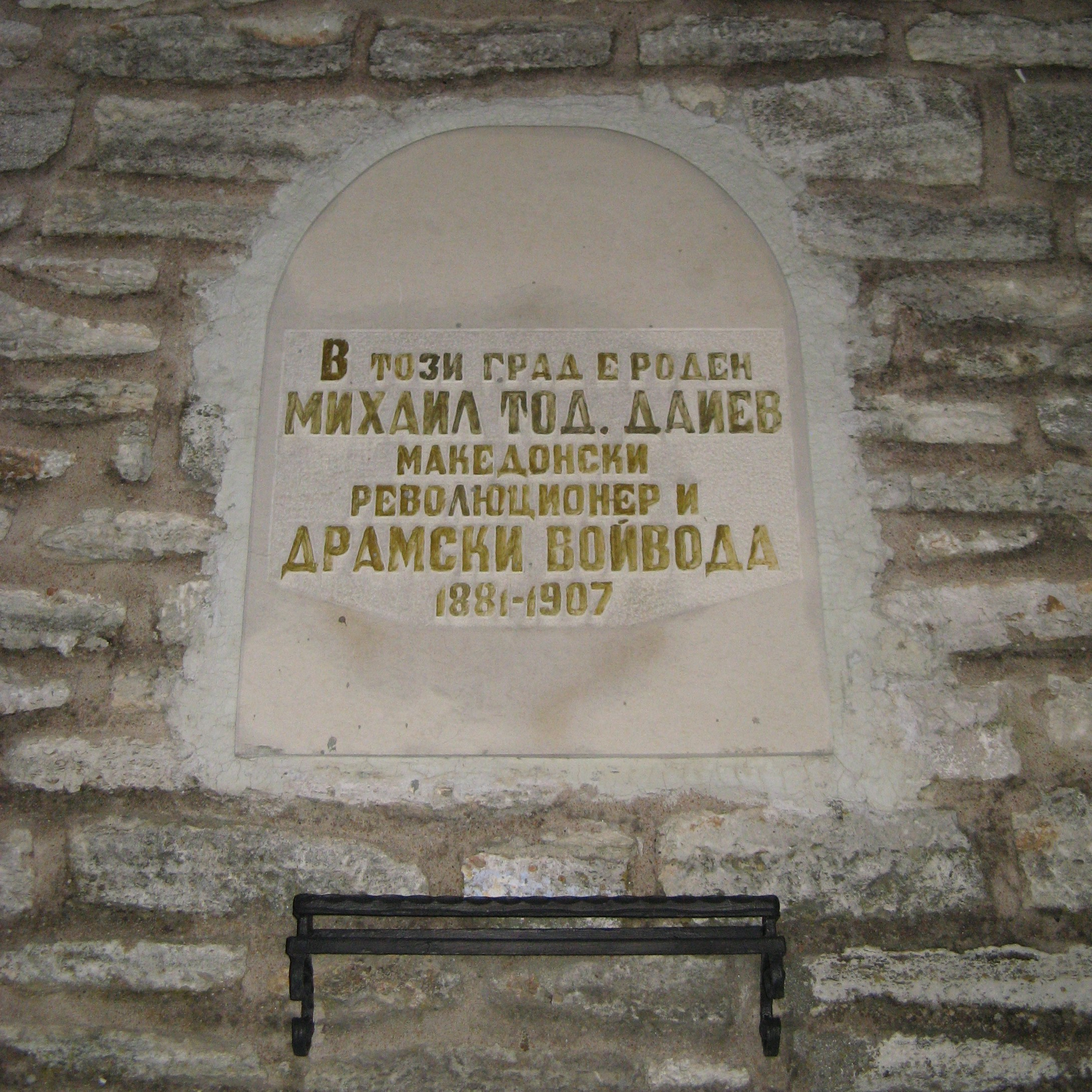 Bulgarian revolutionar Mihail_Daiev